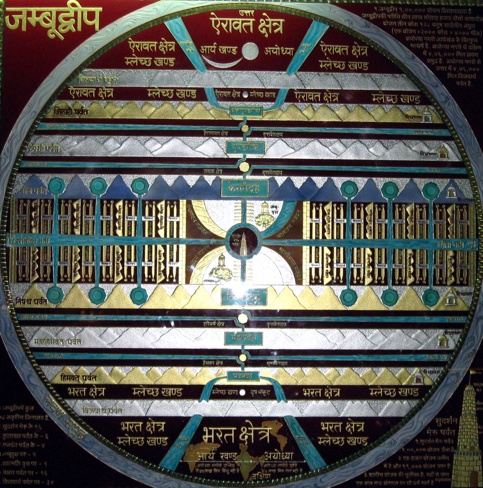 This plate shows depiction of Jambudvipa as per Jain Cosmology. It also shows other continents within Jambudvipa like Bharata and Airavata.